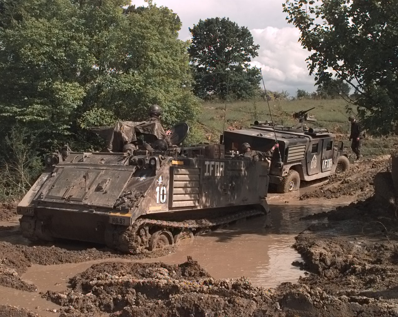 A U.S. Army M-113 Armor Personnel Carrier prepares to pull an armored Humvee out of the mud in Bosnia and Herzegovina on May 10, 1996, during Operation Joint Endeavor. The spring-time mud has presented a challenge to the soldiers and their equipment deployed to Bosnia and Herzegovina as part of the NATO Implementation Force (IFOR).